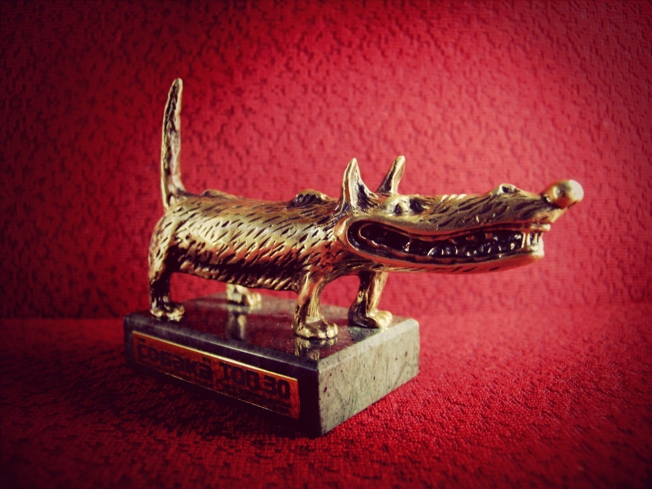 Photo